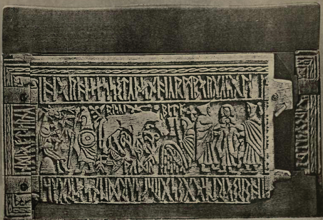 The right panel of the Franks casket